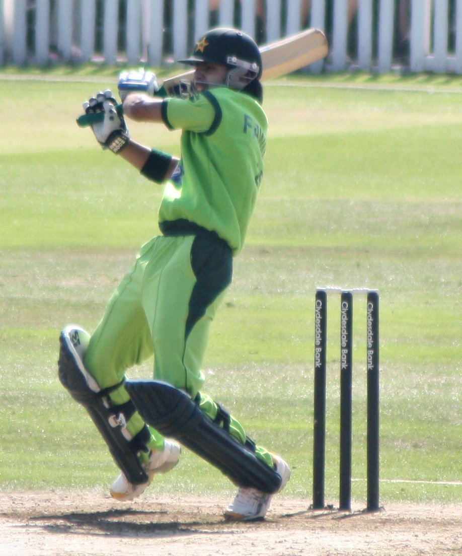 Fawad Alam batting for Pakistan during a 50-over warm-up match against Somerset at the County Ground, Taunton, during Pakistan's 2010 tour of England.